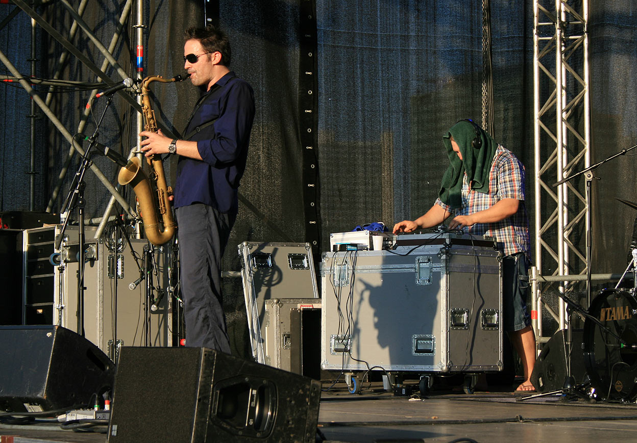 Austrian band Drechsler at the Donauinselfest 2007